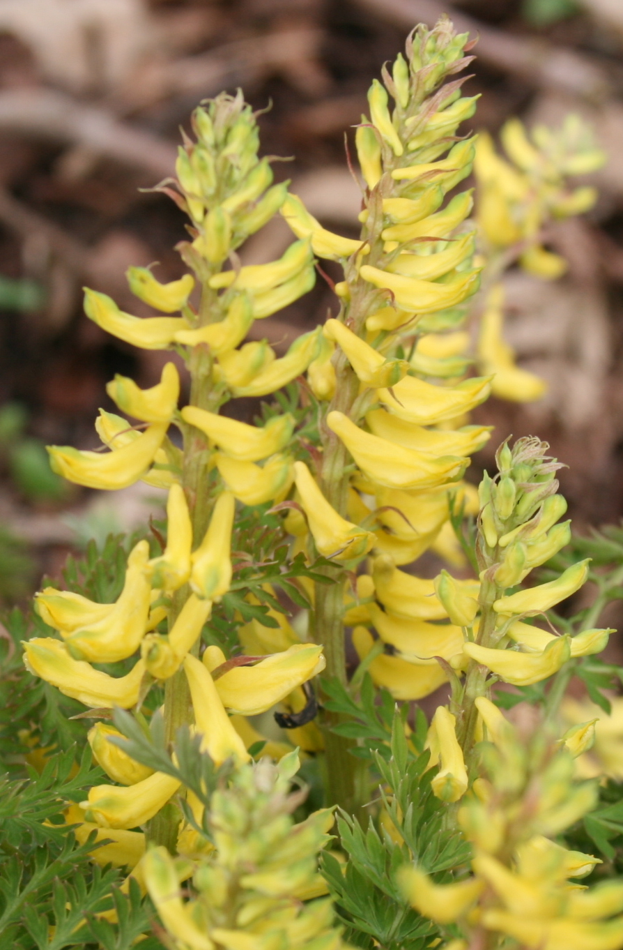 Corydalis cheilanthifolia: Flowers.